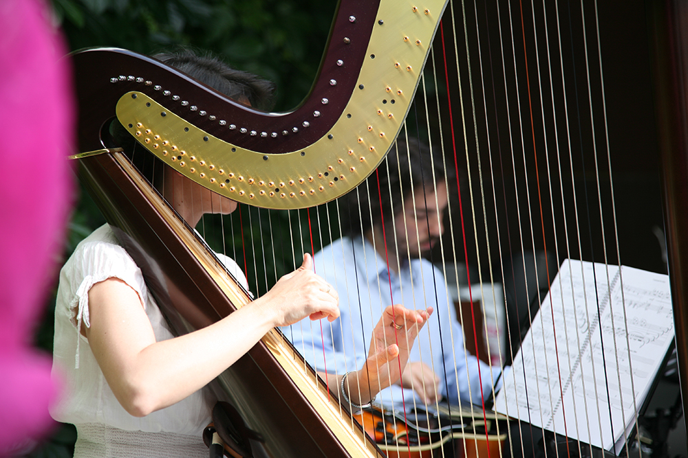 Cycle of music in the Museum Jorge Rando